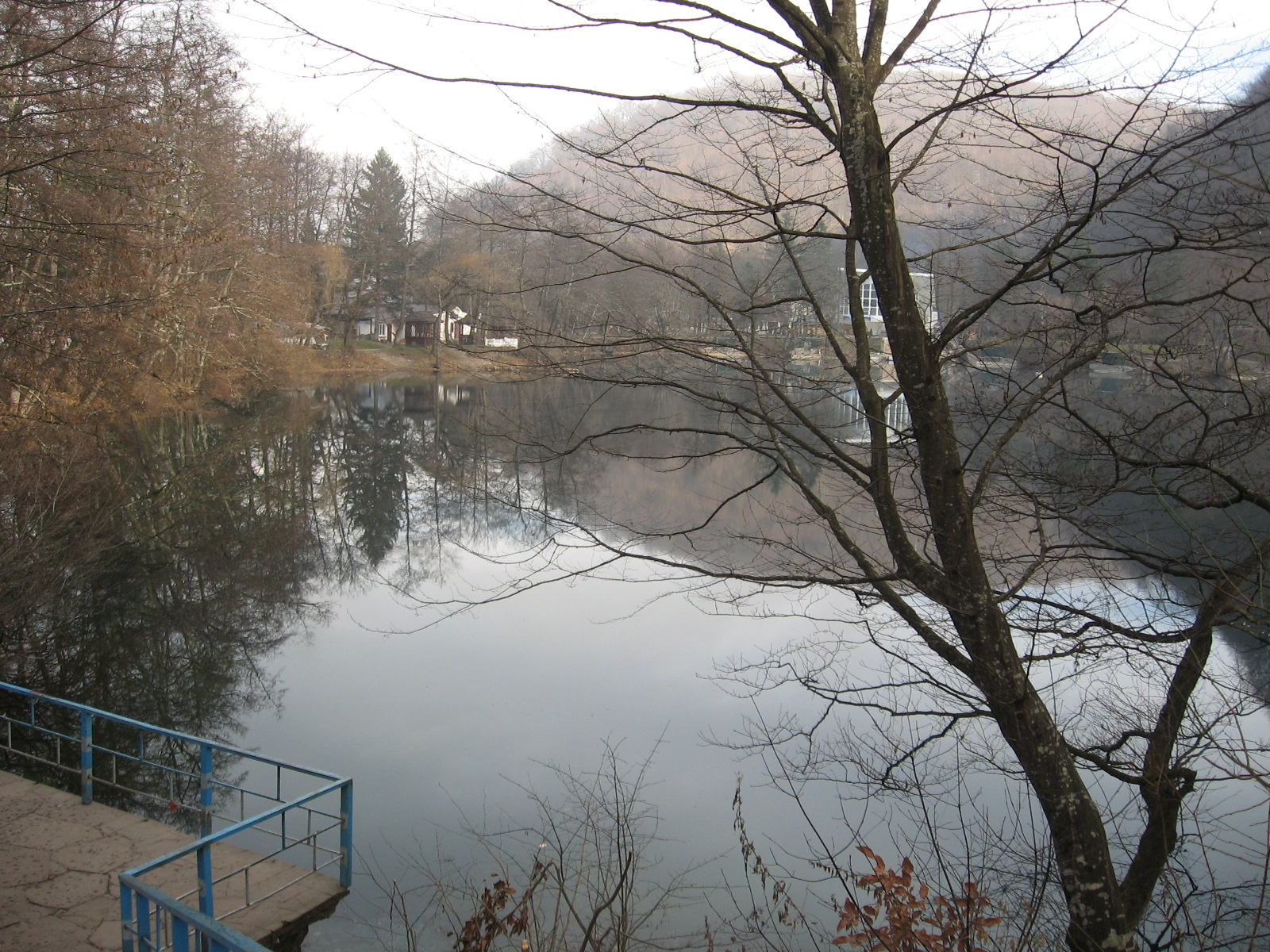 Cherek-Köl (Nizhnee Goluboe ozero) - mountain lake in Kabardino-Balkaria